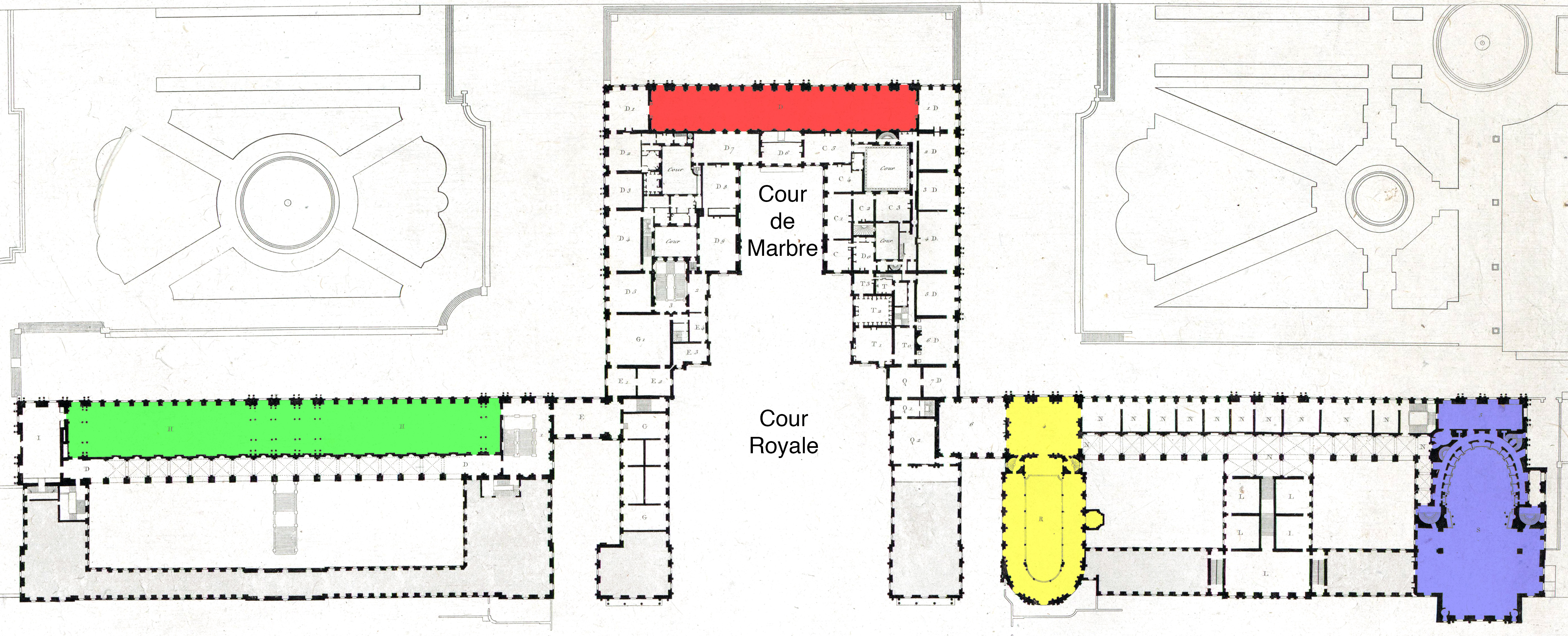 Plan of the main floor (premier étage) of the Palace of Versailles, showing the Hall of Mirrors in red, the Galerie des Batailles in green, the Royal Chapel in yellow, and the Opéra in blue